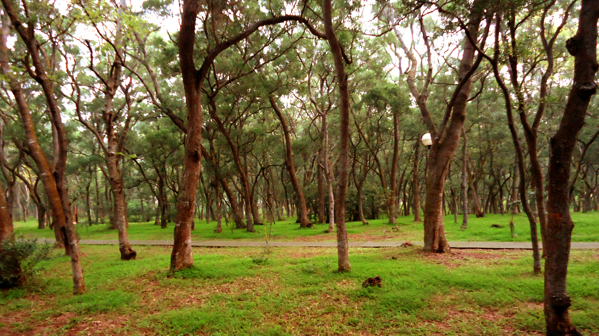 Tunghai University, Taichung, Taiwan.